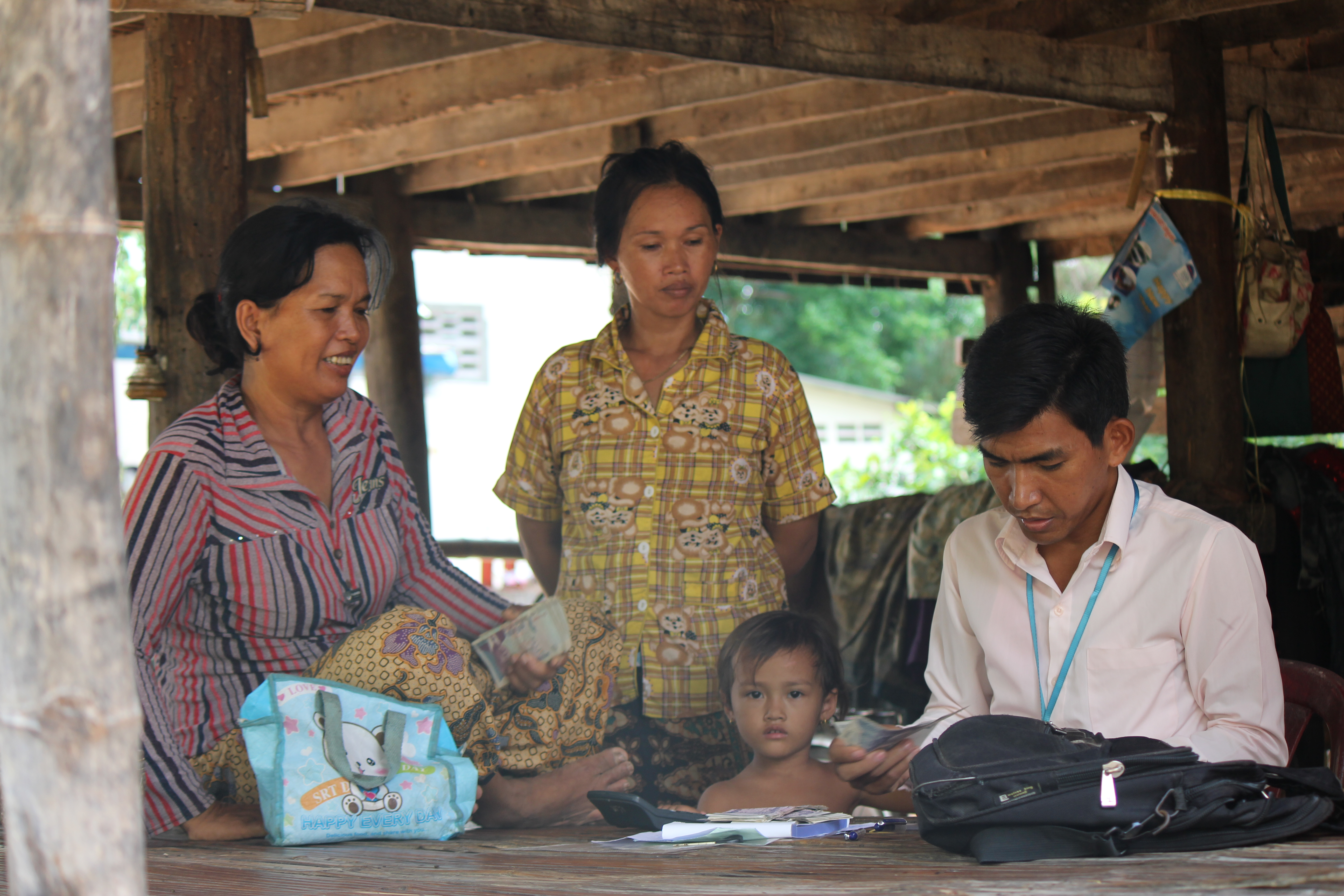 IPR staff working with clients in Takeo Province, Cambodia